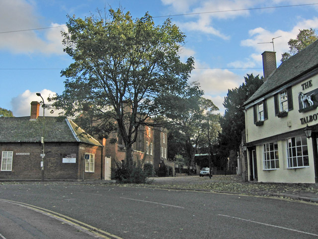 Belgrave Hall Museum. On the junction of Thurcaston Road and Church Road, Belgrave Hall on the left and the Talbot on the right. The old part of Belgrave is a conservation area.